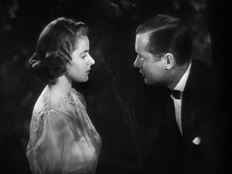 Ingrid Bergman and Robert Montgomery in Rage in Heaven, by W.S. Van Dyke, Robert B. Sinclair and Richard Thorpe (1941)